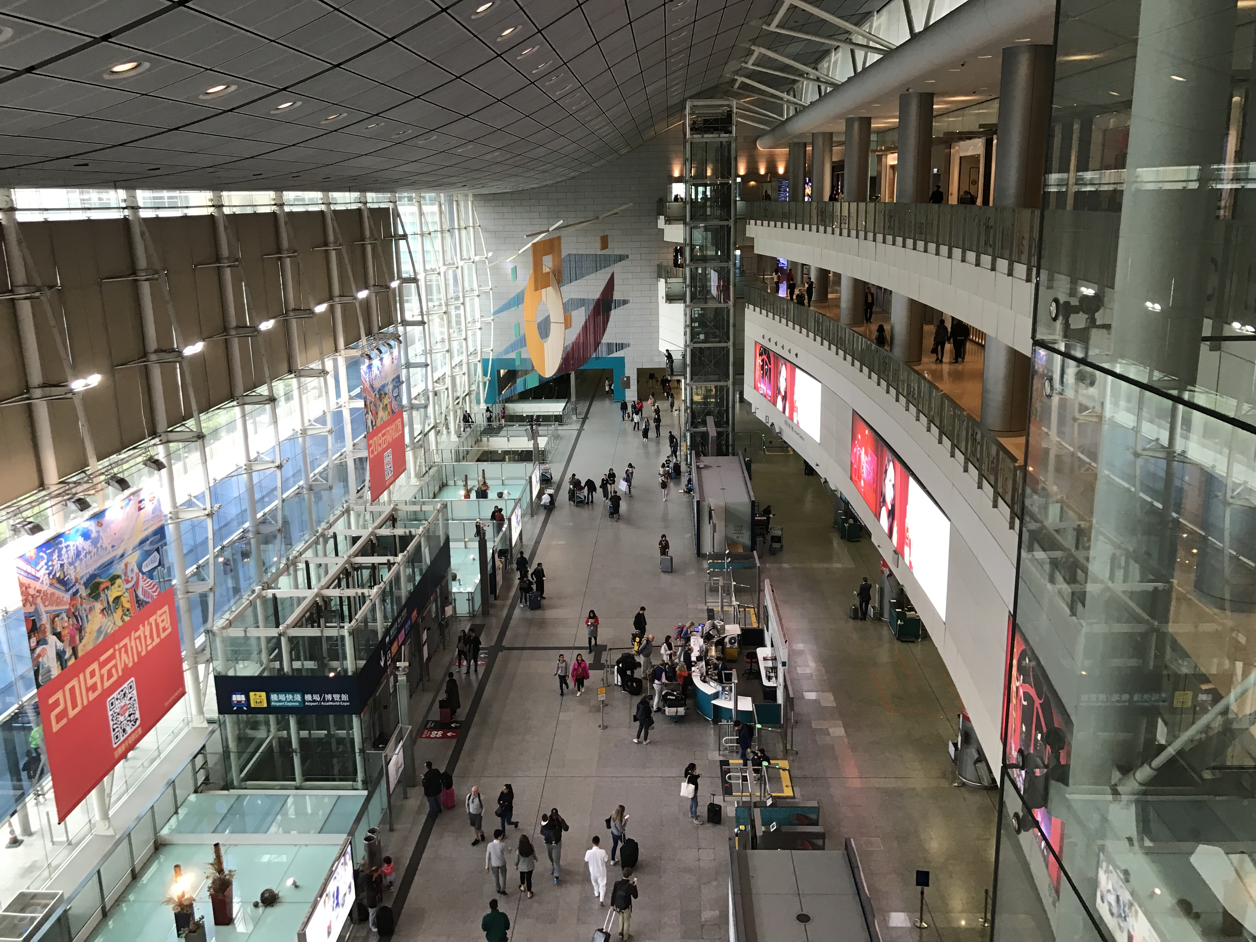 Photograph of the Airport Express concourse of Hong Kong station, from the third-floor balcony of the IFC Mall.